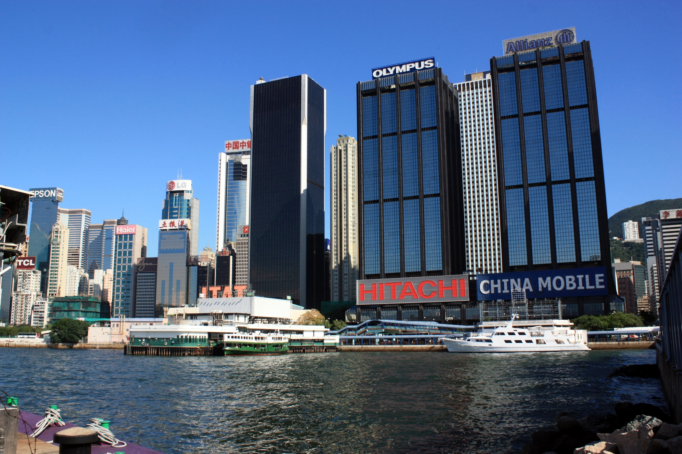 灣仔 Wan Chai East View